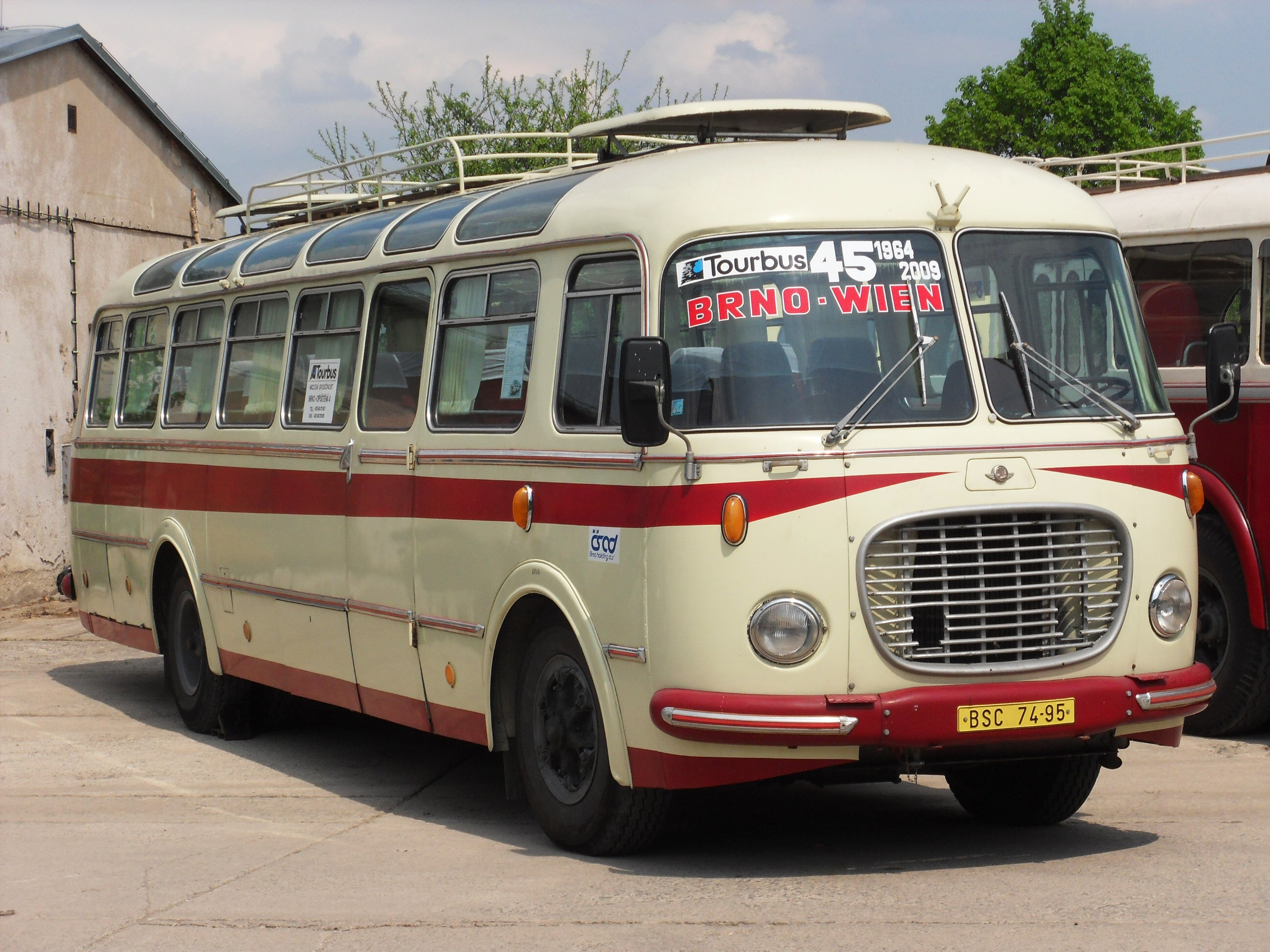 Historical bus 1969 Škoda 706 RTO LUX of Tourbus, depository of Technical Museum in Brno, Czech Republic